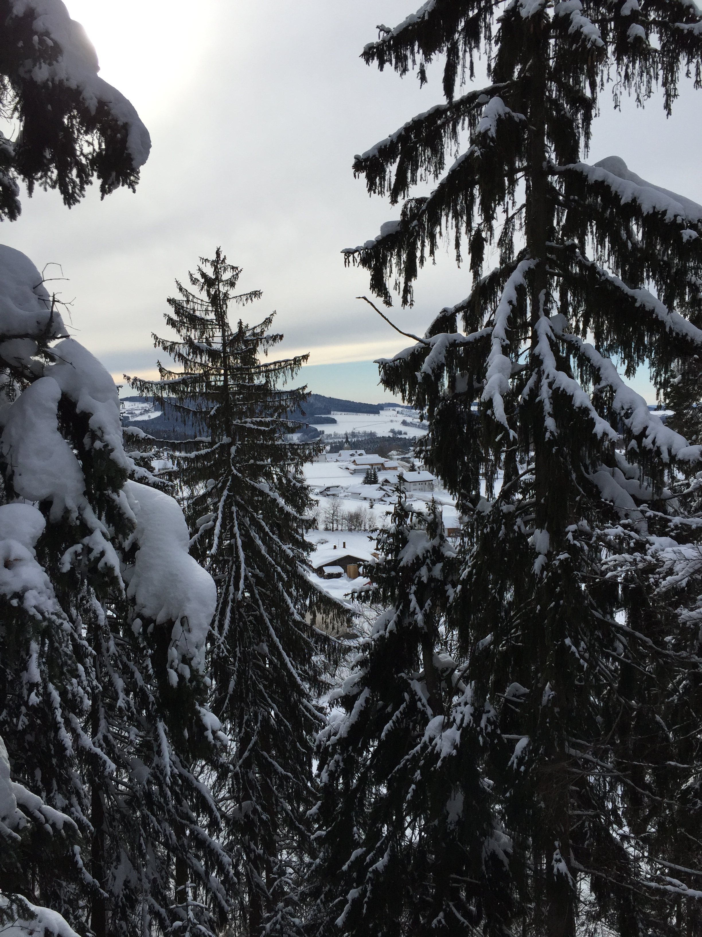 View on Neuschönau from the Waldwipfelpfad